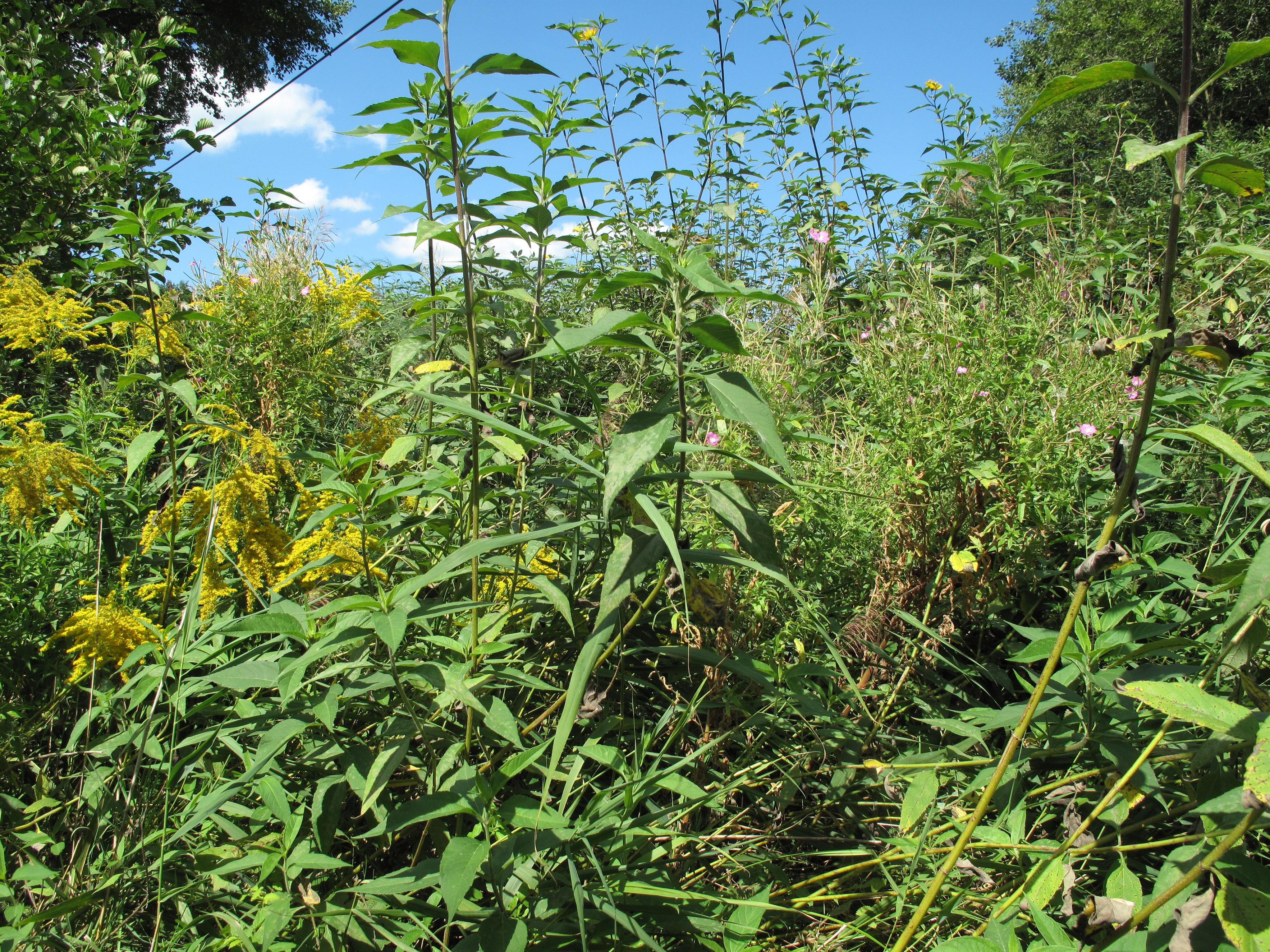 Plants in the Naturschutzgebiet Storkower Kanal. The „Naturschutzgebiet Storkower Kanal “ is a Naturschutzgebiet (protected area) and Natura 2000-area in the districts Oder-Spree and Dahme-Spreewald in Brandenburg, Germany. The area covers about 97 hectare and is situated in the Dahme-Heideseen Nature Park. It is nestled along the „Stahnsdorfer Fließ“ (little stream) and along the west part of the eponymous Storkower Kanal (water canal).